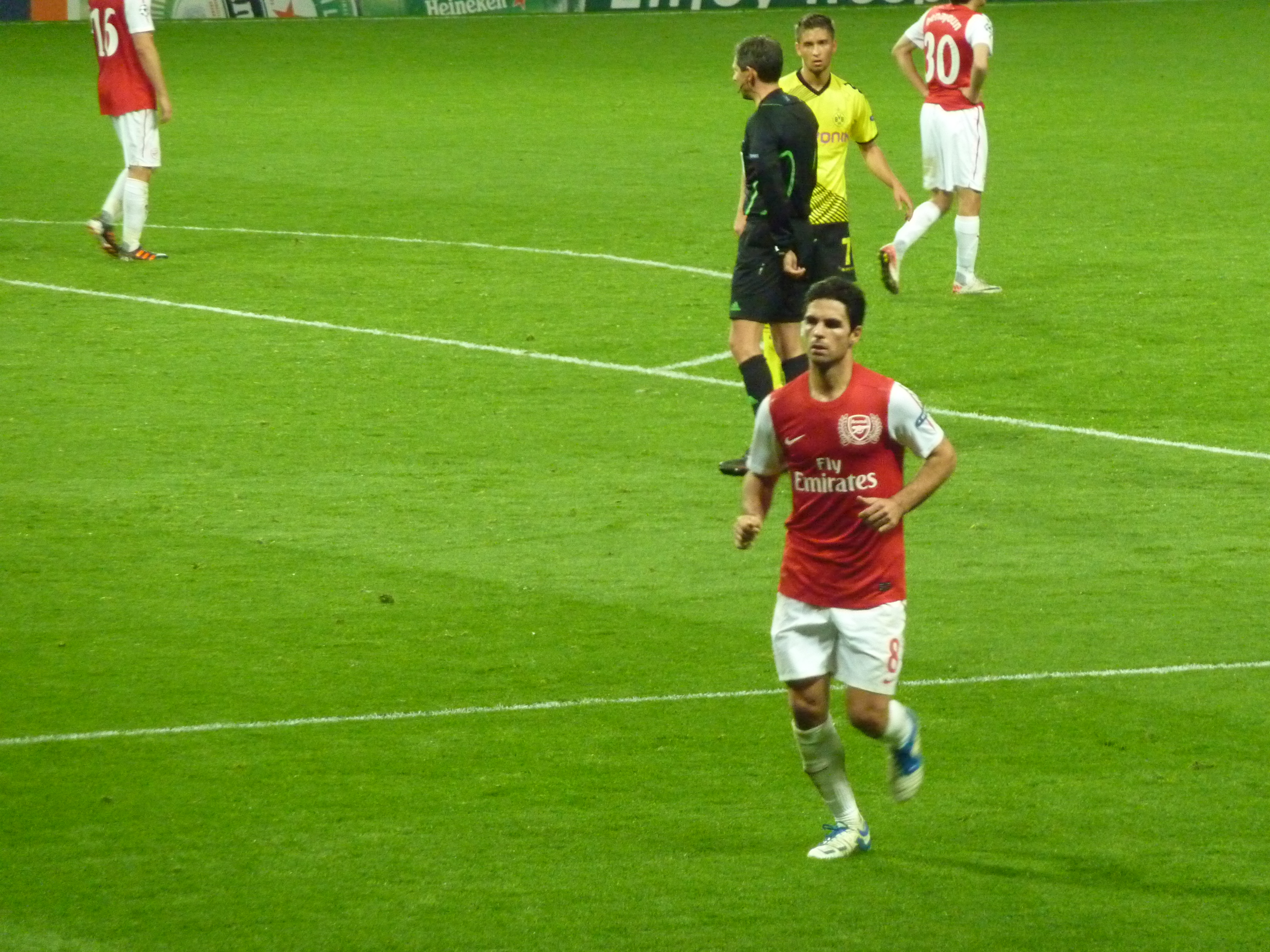 Mikel Arteta and Arsenal against Borussia Dortmund in the UEFA Champions League.